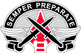 US Army SOCEuropeUSAE DUI